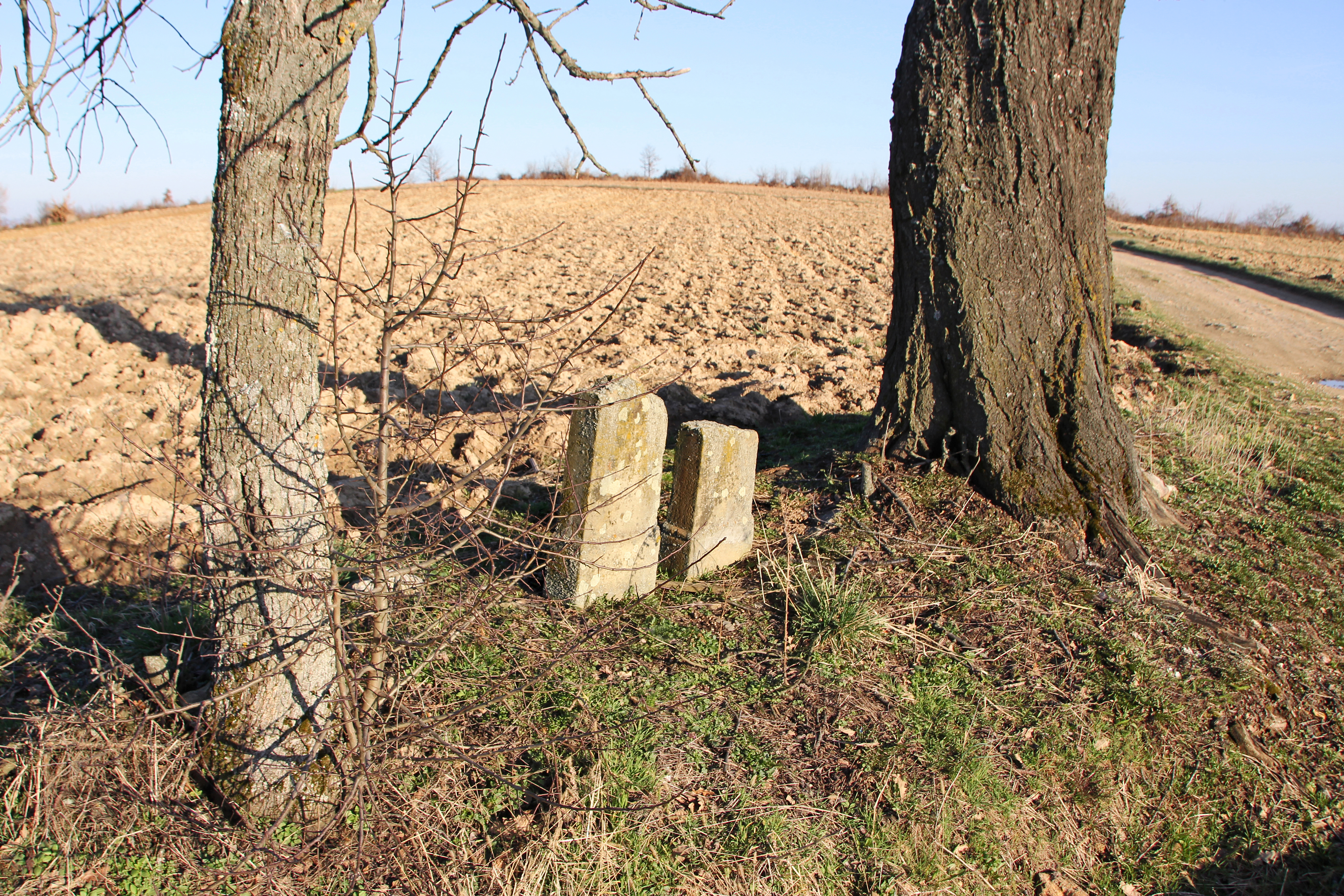 Two roadside monuments below the sacred tree in Teocin, municipality of Gornji Milanovac, Serbia.